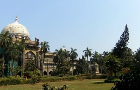 A picturesque view of the museum